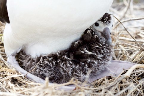 A Laysan Albatross chick (Phoebastria immutabilis) makes its home at Midway Atoll. The island is visited by almost two million birds every year. US President G.W. Bush designated the Northwest Hawaiian Islands as a national monument June 15, 2006, and is the single largest conservation area created in U.S. history and is the largest protected marine area in the world.